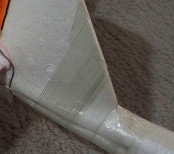 Filament on part of model airplane.